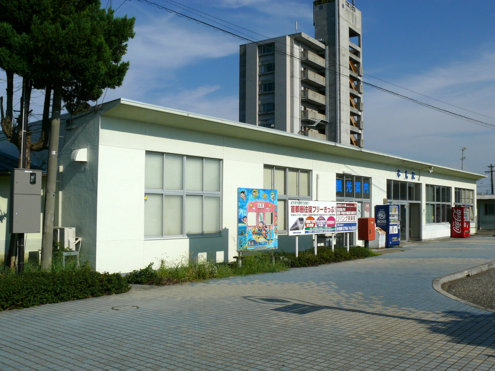 Himi Station(Toyama Prefecture, Japan).